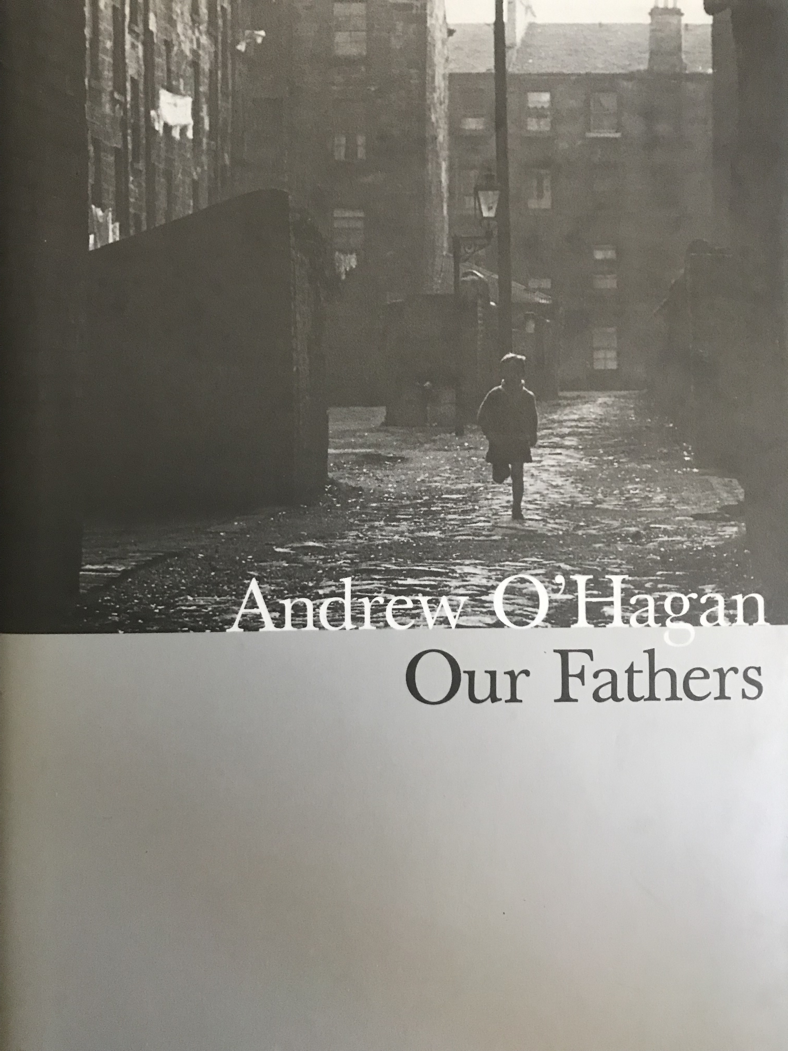 Cover of Our Fathers, a novel by Andrew O'Hagan